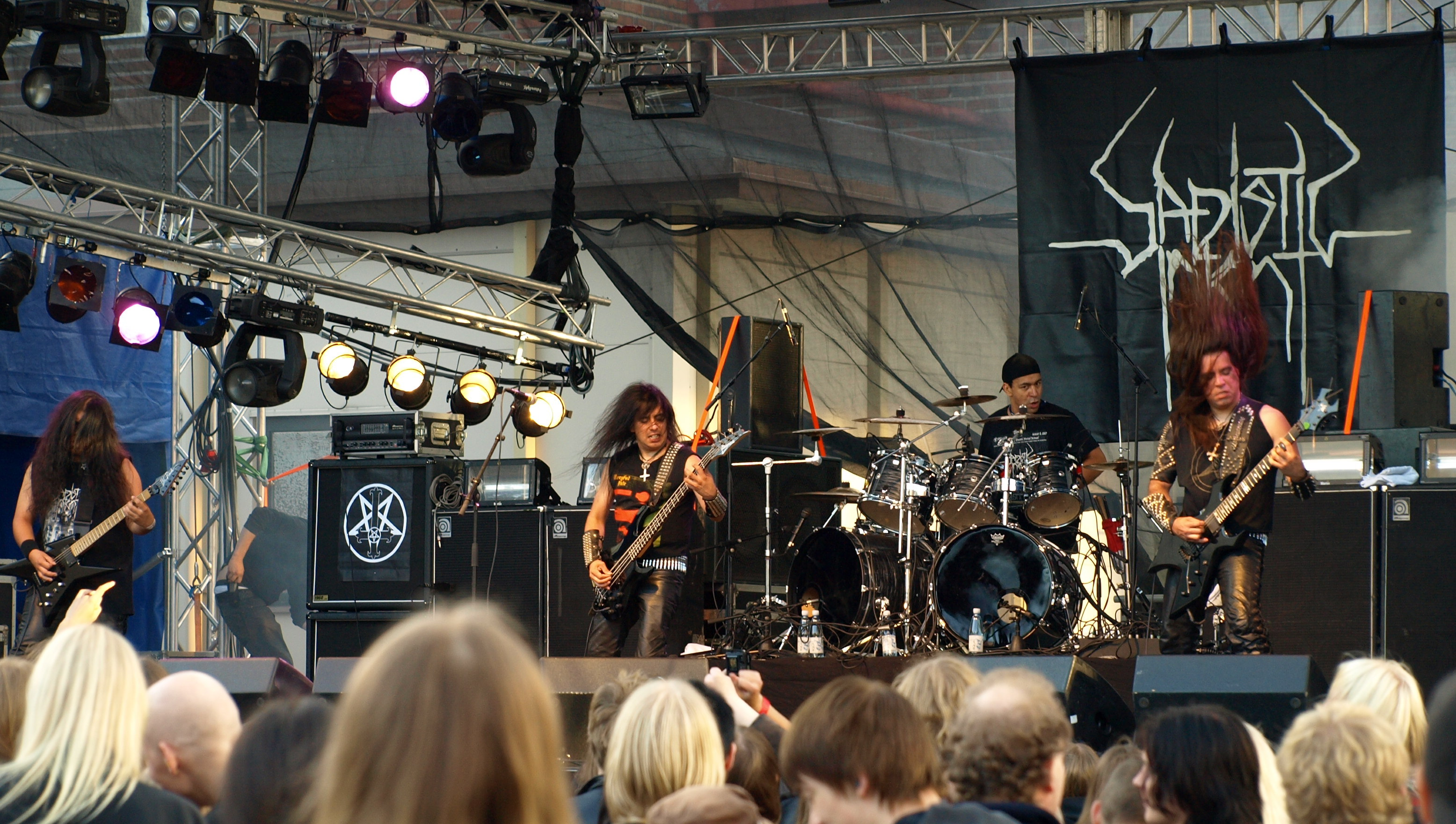 American death/thrash metal band Sadistic Intent live at Jalometalli 2008 in Oulu.